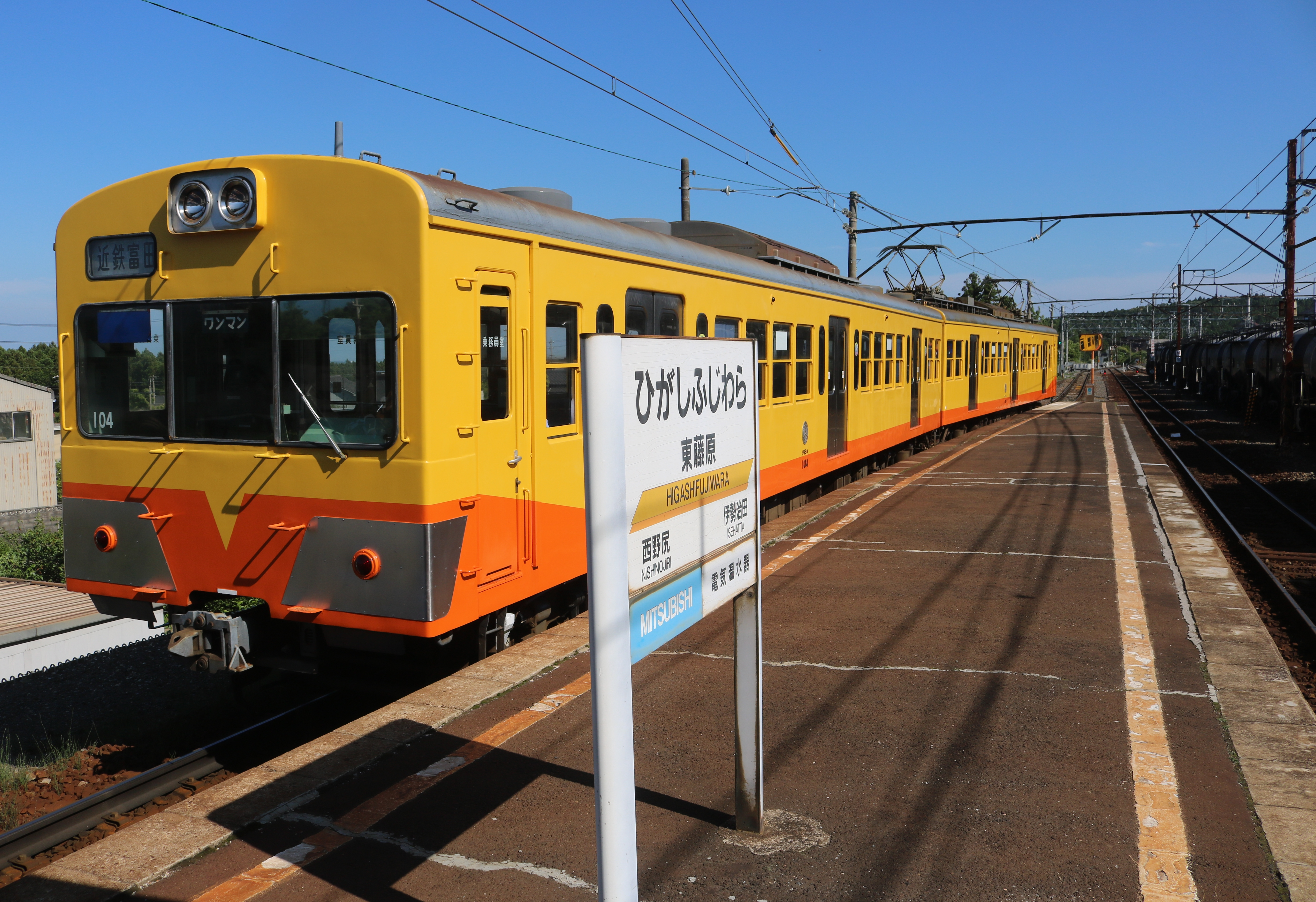 Sangi Railway 101 series starting from Higashi-Fujiwara Station in Inabe Mie Prefecture, Japan.